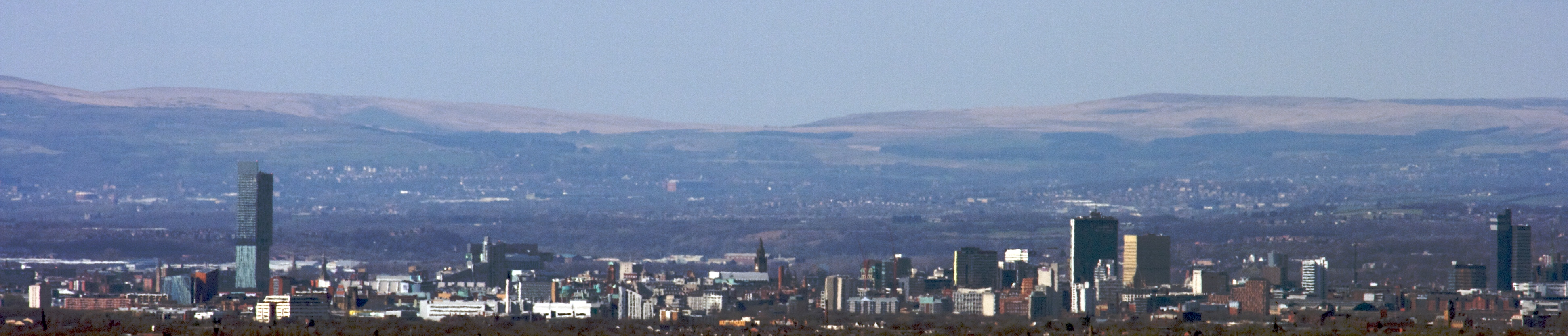 The skyline of the city of Manchester, Greater Manchester, England.